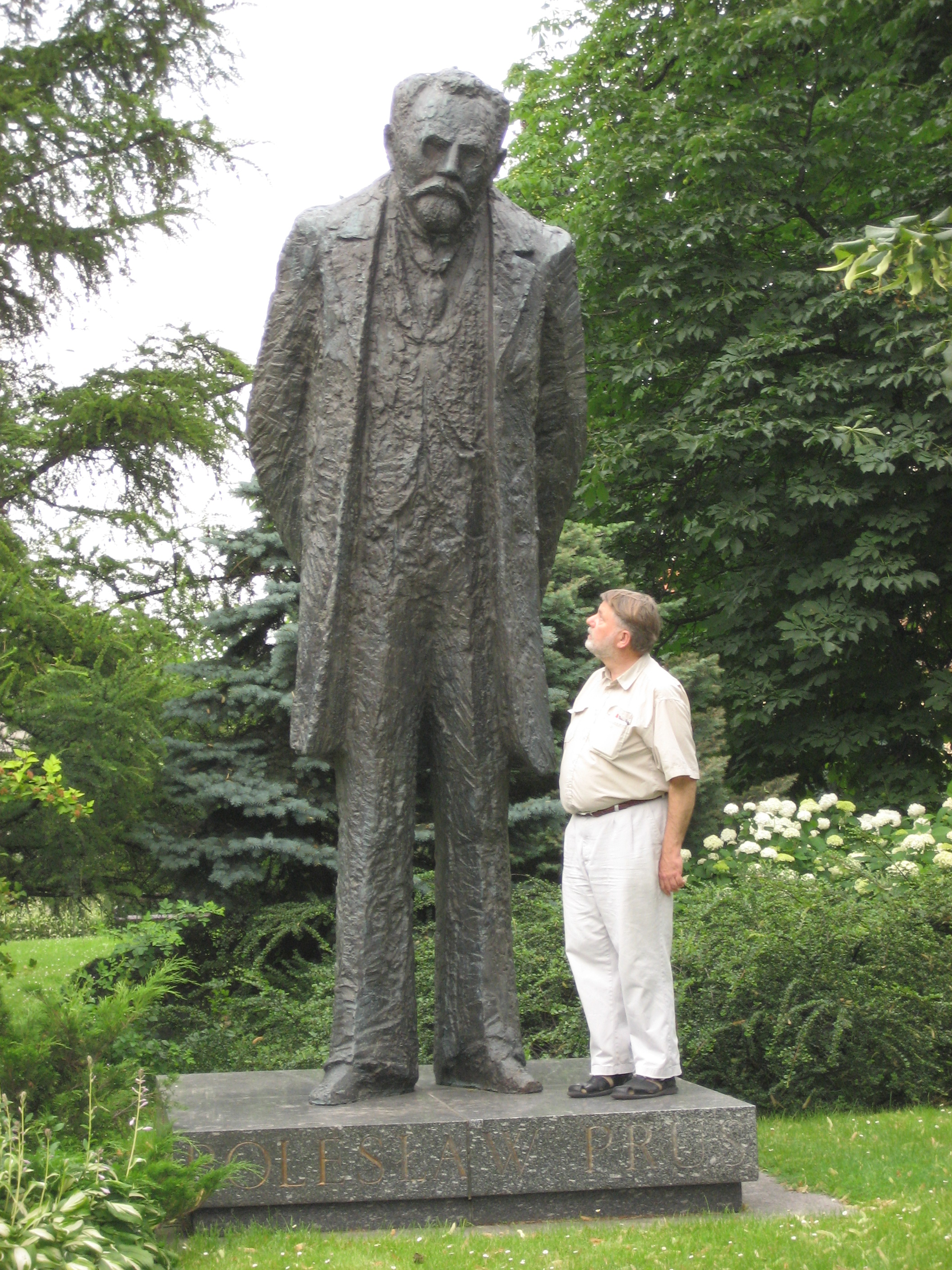 Statue of Boleslaw Prus by Anna Kamieńska-Łapińska on Warsaw's Krakowskie Przedmiescie, in a garden adjacent to Hotel Bristol. (Man beside the statue, who is NOT related to Prus, is 5 feet, 11 inches tall.)